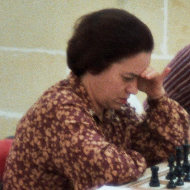 Tereza Stadler at the Chess Olympiad 1980 in Malta, Photographer Gerhard Hund.